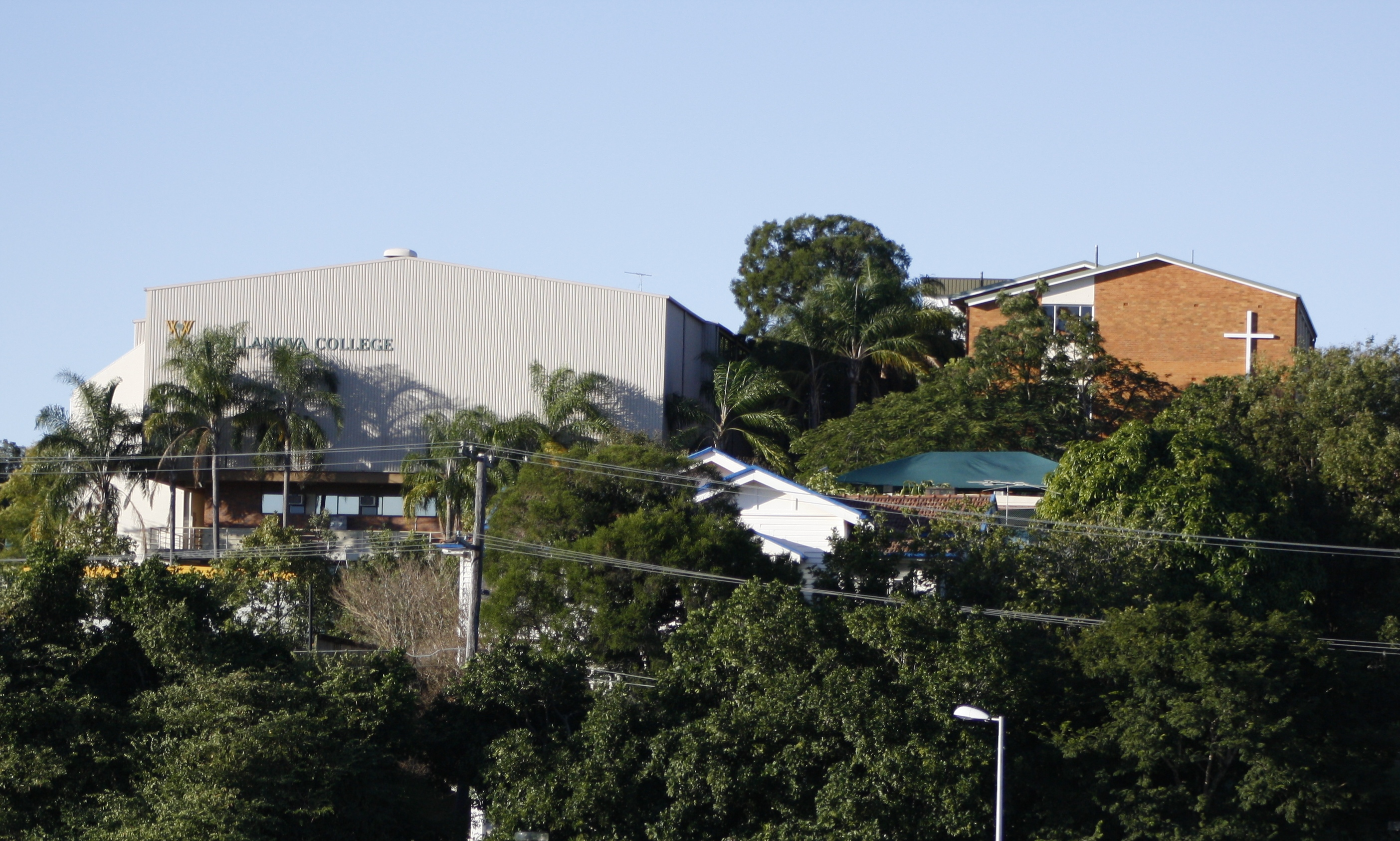 Villanova College from Langlands Park